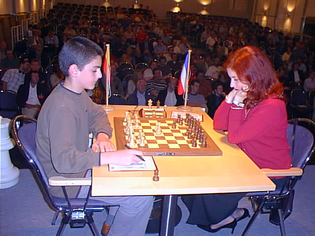 David Baramidze - Alisa Maric,Dortmunder Schachtage 2002, Photographer Gerhard Hund.